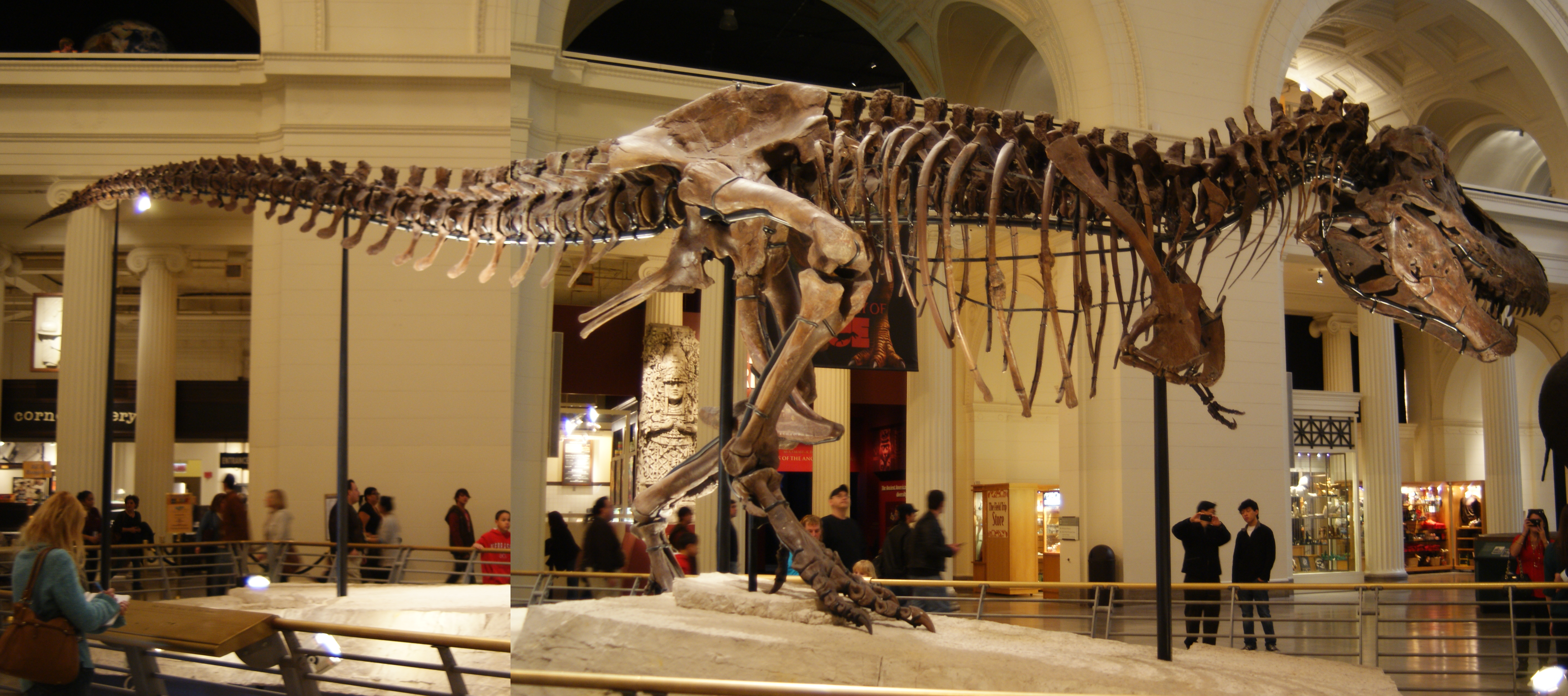 Sue (Tyrannosaurus rex) at the Field Museum, Chicago, IL